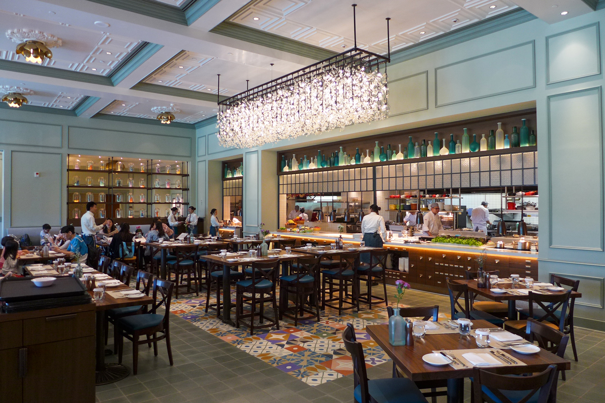 Disney Explorers Lodge World of Colour Restaurant